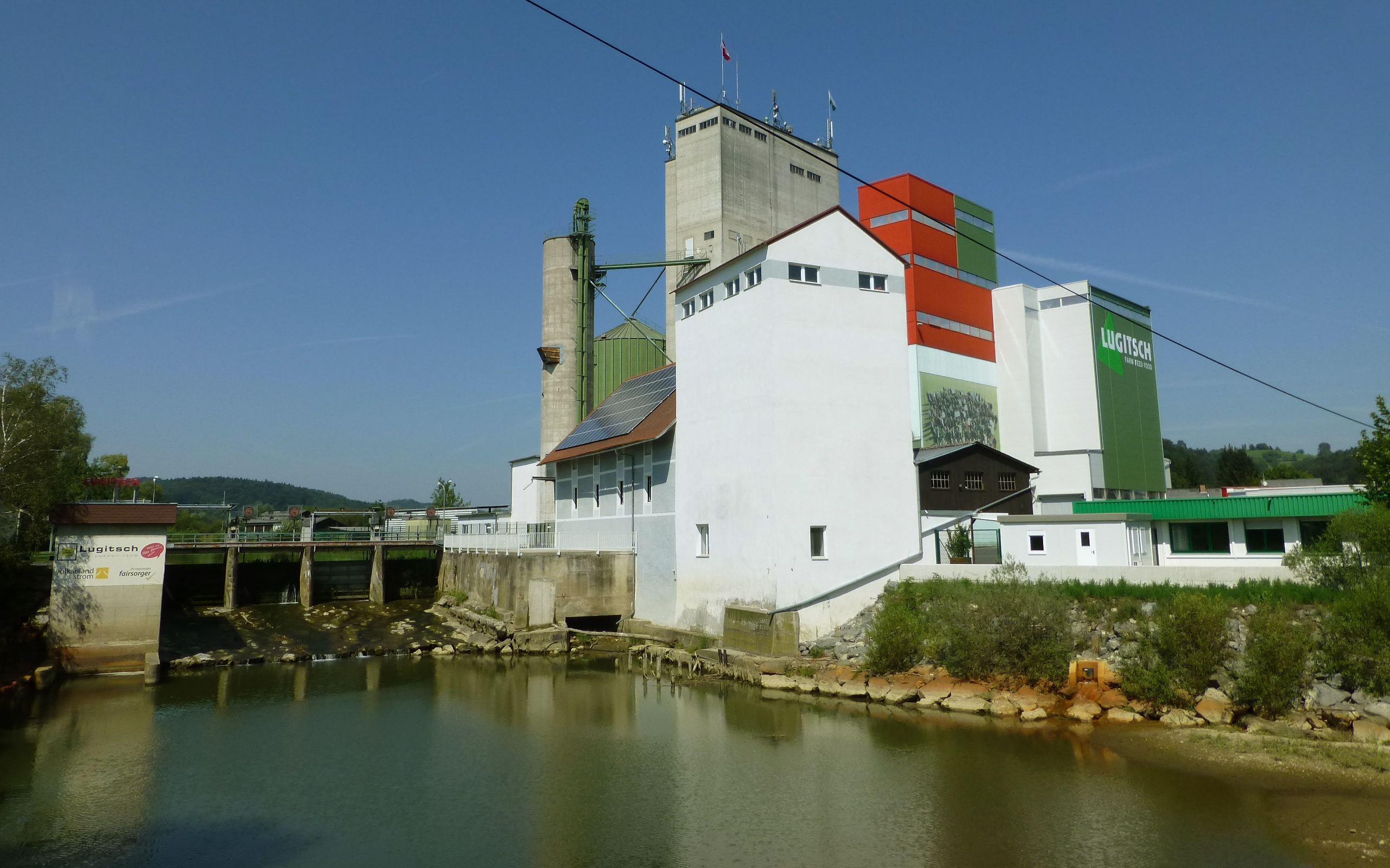 Lugitsch Farm Feed Food on the Raab river, Gniebing (Feldbach), Styria.